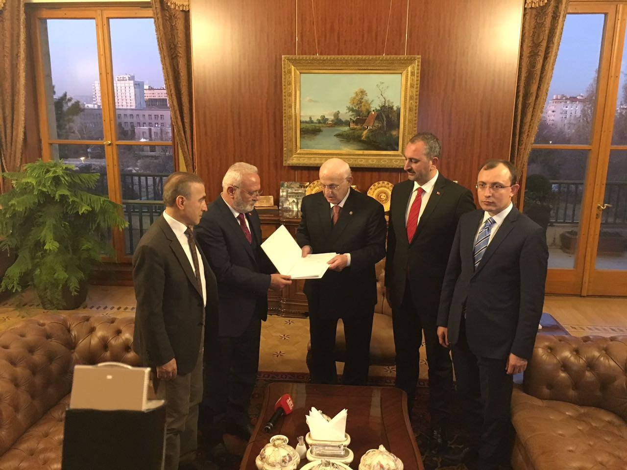 The AKP submitting their proposed constitutional changes to the TBMM Speaker's office, December 2016.